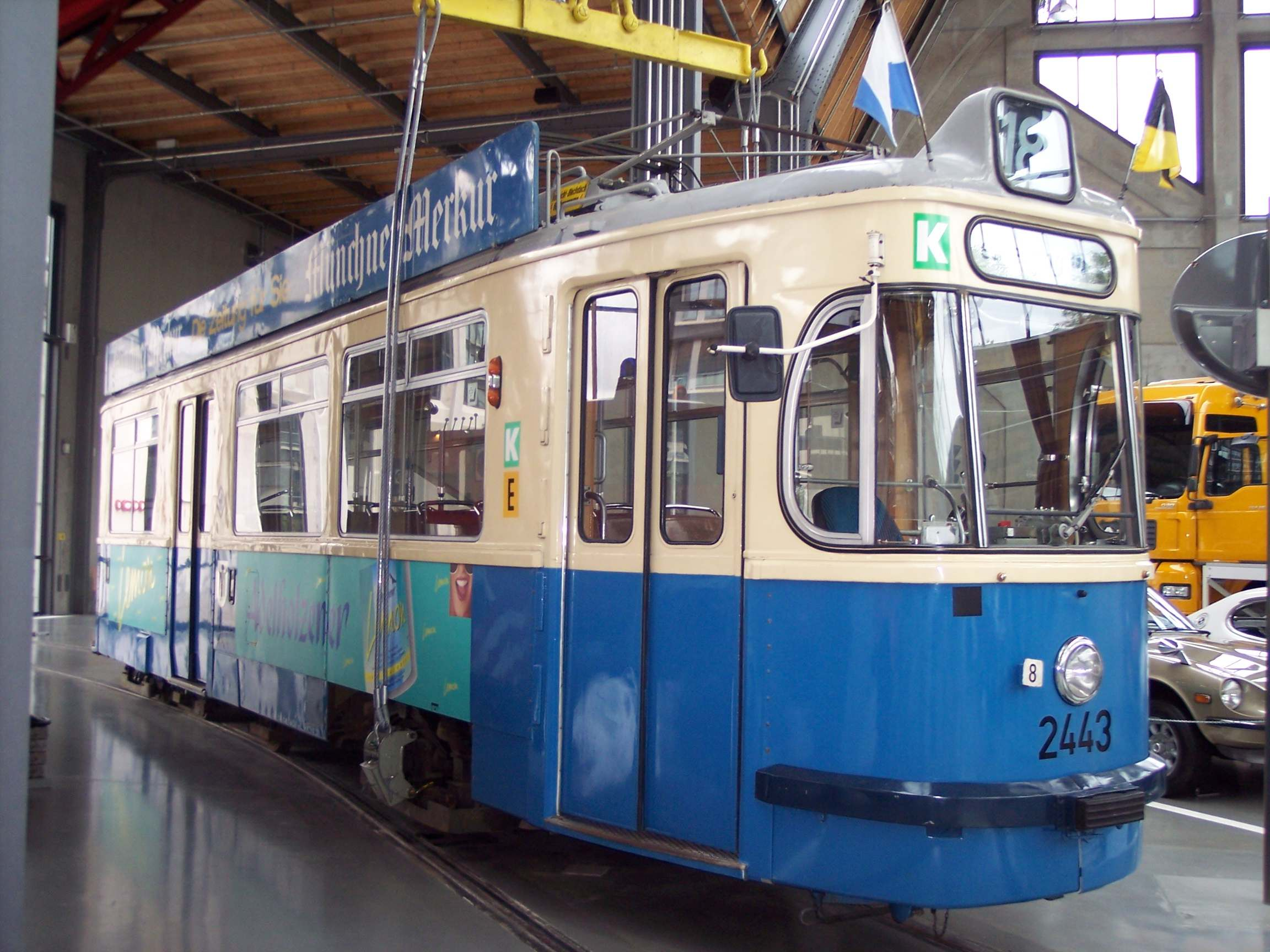 Munich tram car series M 4.65 in the traffic exhibition of the Deutsches Museum, Munich, Germany